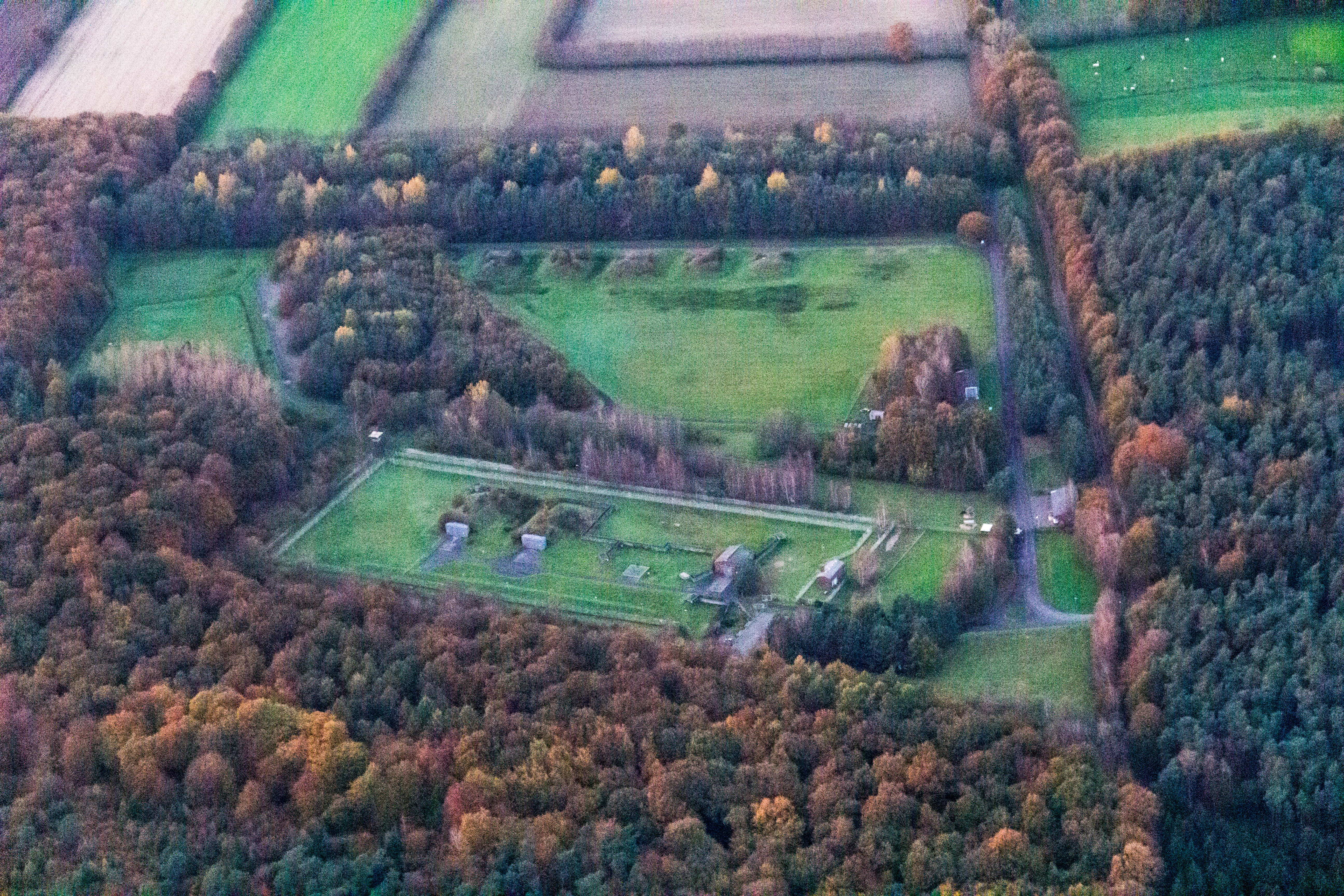 Firma “Haarmann Feuerwerk”, Kirchspiel, Dülmen, North Rhine-Westphalia, Germany